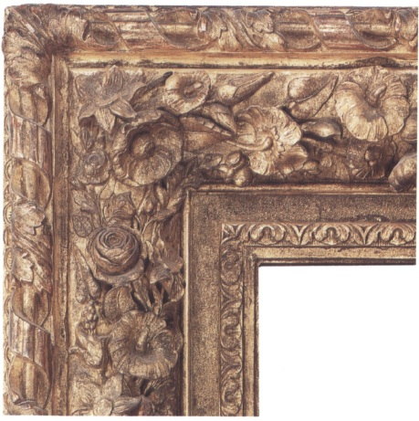 Louis XIII style Ovolo frame (for Ingres's Portrait of the Princesse de Broglie) MET 86AG 288R4